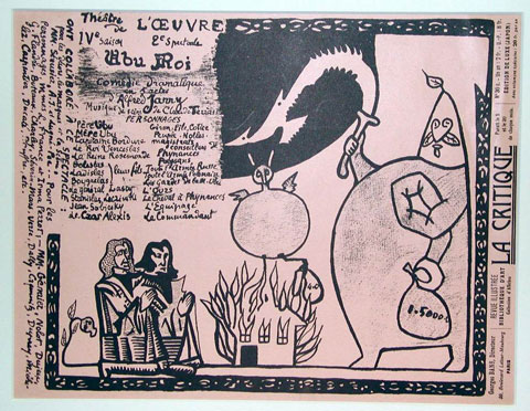 Program Cover Art for Alfred Jarry's Ubu Roi, which premiered at the Théâtre de l'Œuvre on 10 December 1896.